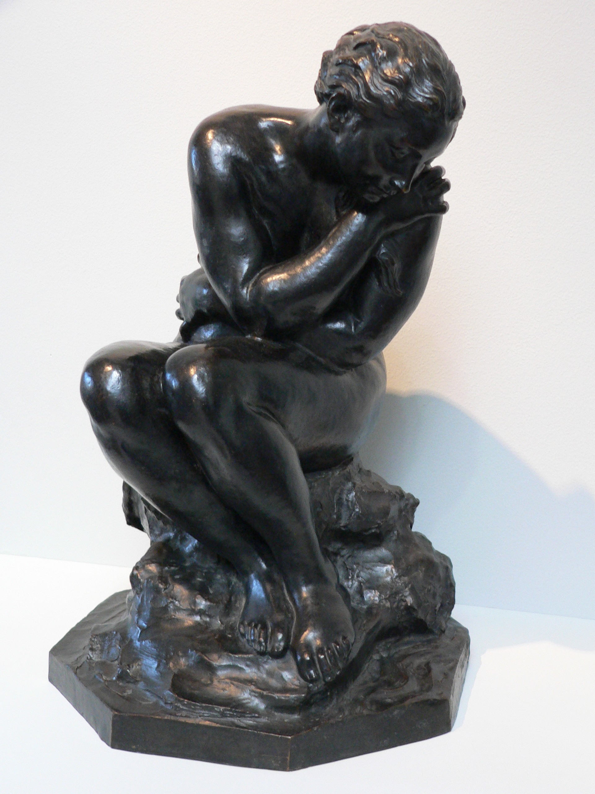 Aimé-Jules Dalou: The Bather Bronze, 4/8 Hebrard Foundry Gift of B. Gerald Cantor, 1982